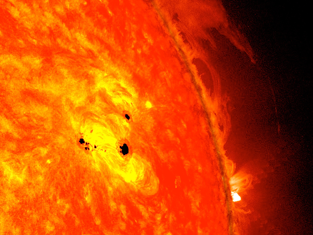 The bottom two black spots on the sun, known as sunspots, appeared quickly over the course of Feb. 19-20, 2013. These two sunspots are part of the same system and are over six Earths across. This image combines images from two instruments on NASA's Solar Dynamics Observatory (SDO): the Helioseismic and Magnetic Imager (HMI), which takes pictures in visible light that show sunspots and the Advanced Imaging Assembly (AIA), which took an image in the 304 Angstrom wavelength showing the lower atmosphere of the sun, which is colorized in red.